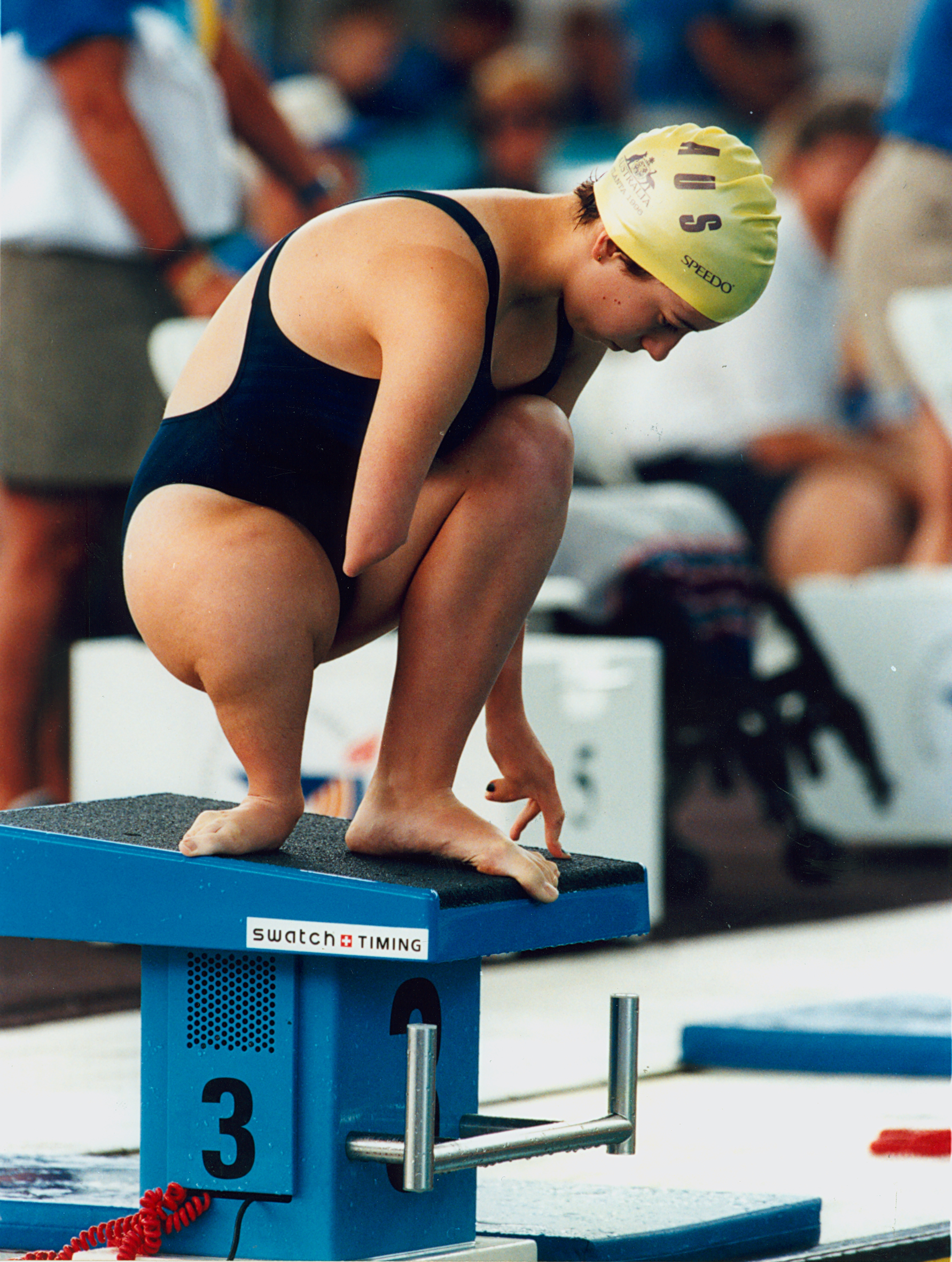 Australian athletes at the Atlanta 1996 Paralympic Games